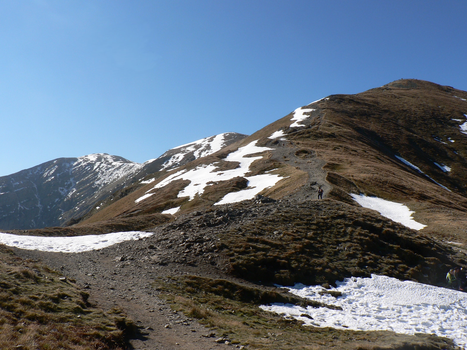 Pod Kopą Kondracką Pass